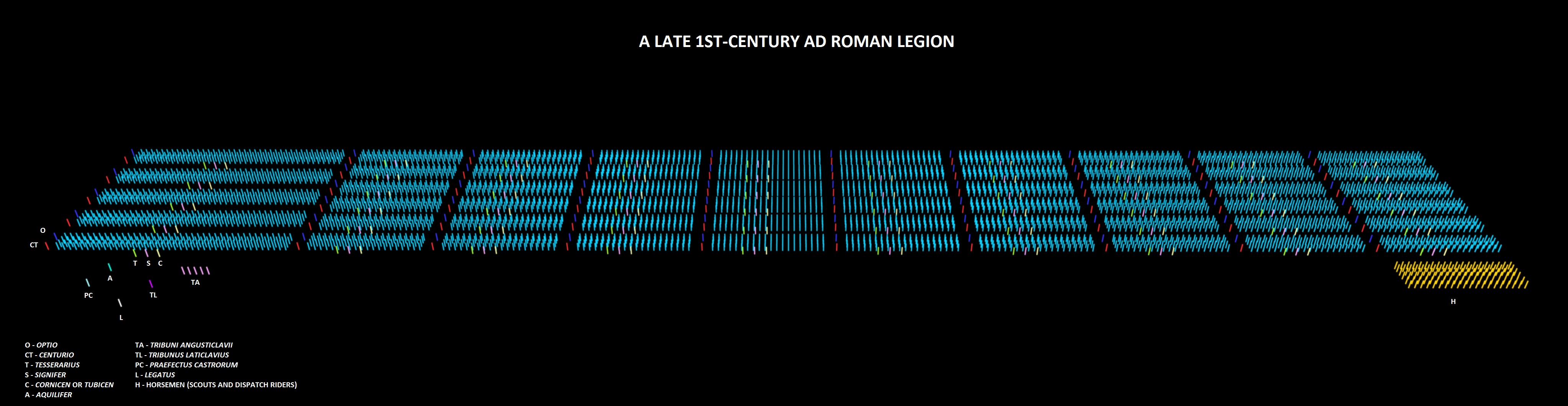 A late 1st-century AD Roman legion. The strength at this time had risen to about 5,500 men divided into 10 cohorts. The first cohort (leftmost) had 5 centuries of about 160 men each. The other cohorts had 6 centuries of about 80 men each. There were also about 120 horsemen attached to each legion.